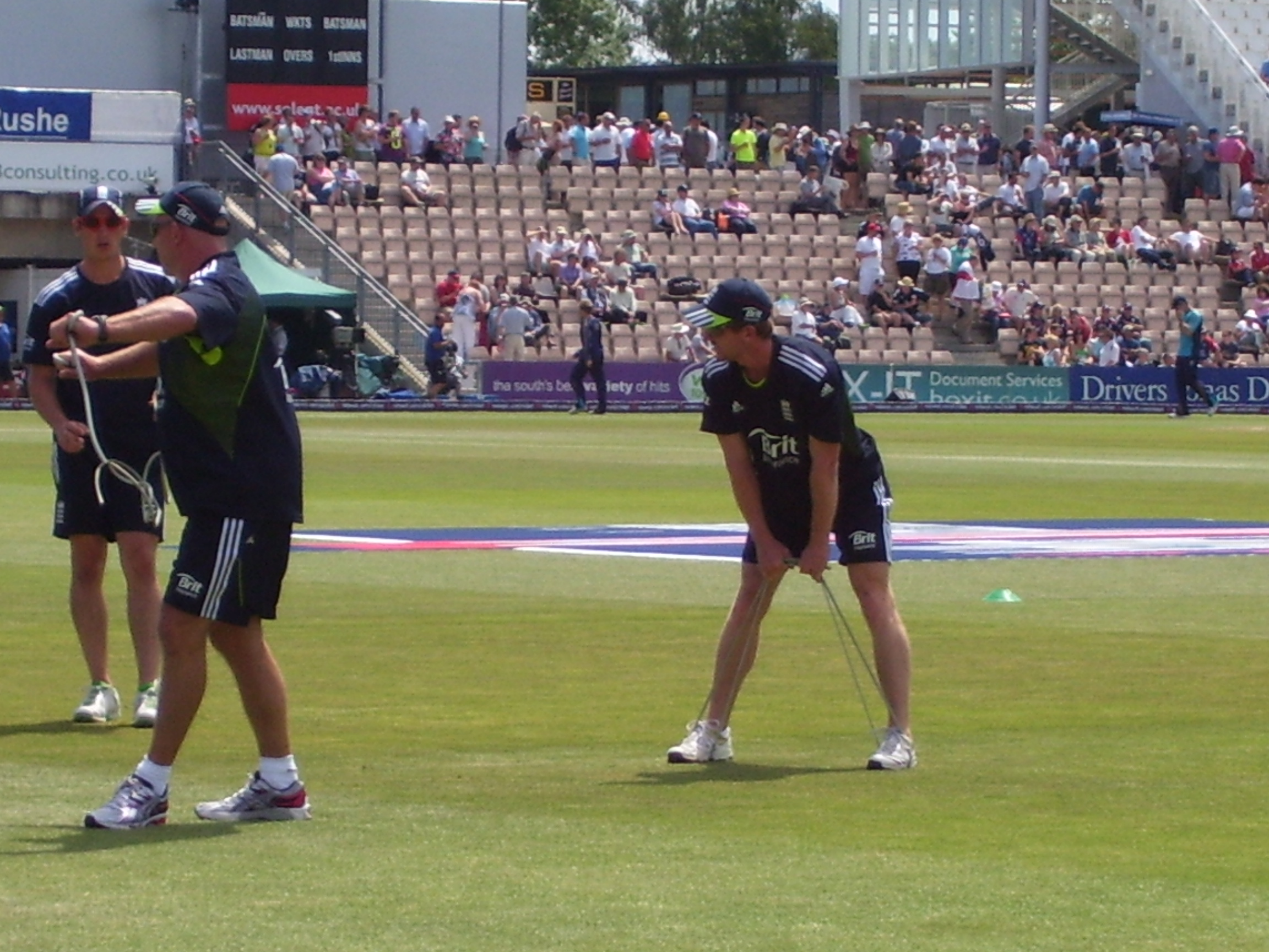 Paul Collingwood warming up before Englands ODI against Australia at the Rose Bowl.